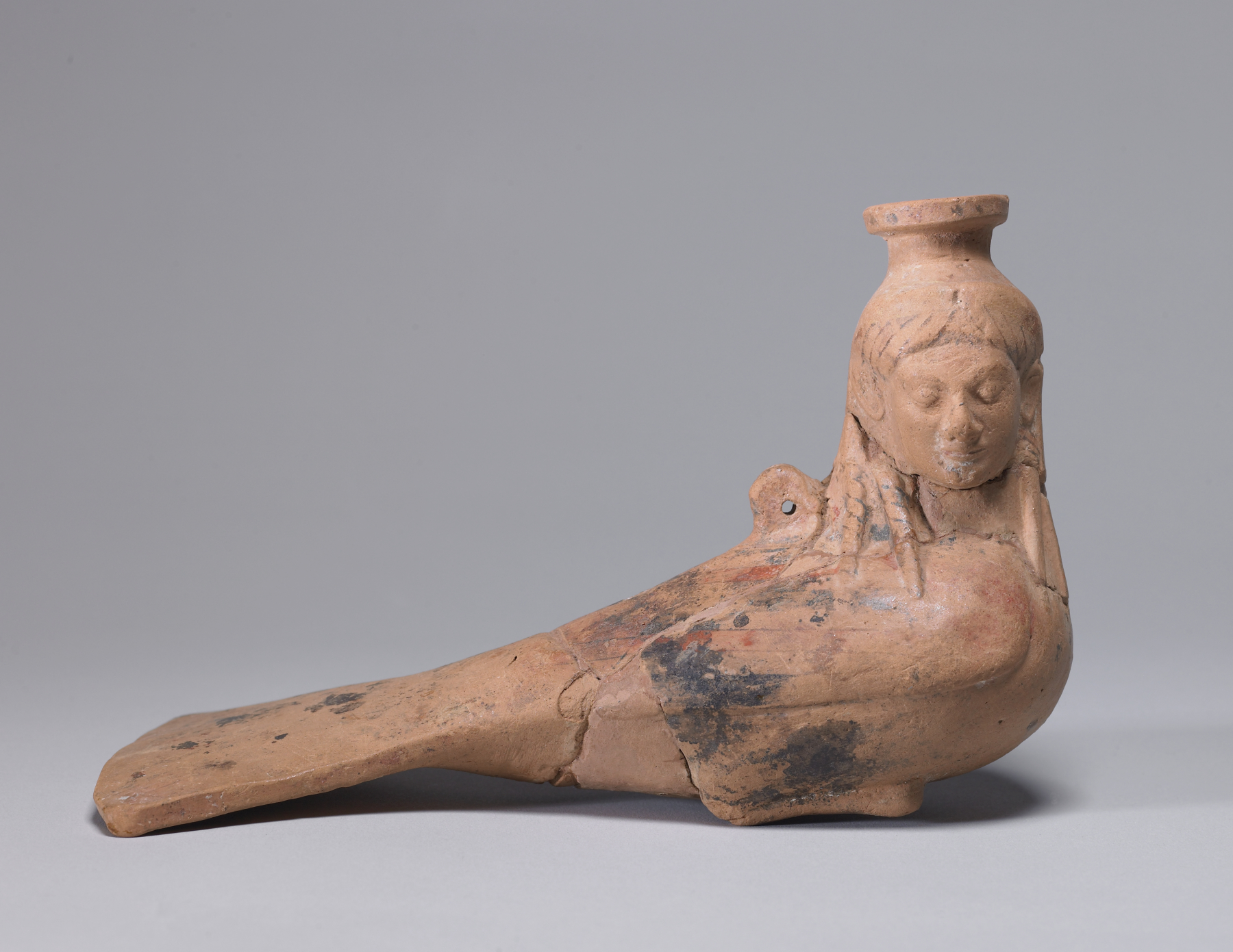 This East Greek type of perfume vase takes the form of a siren, a mythical creature with a woman's head and a bird's body, known for her connections to the underworld and for her mesmerizing power over men. A pierced lug for hanging is attached to her back.